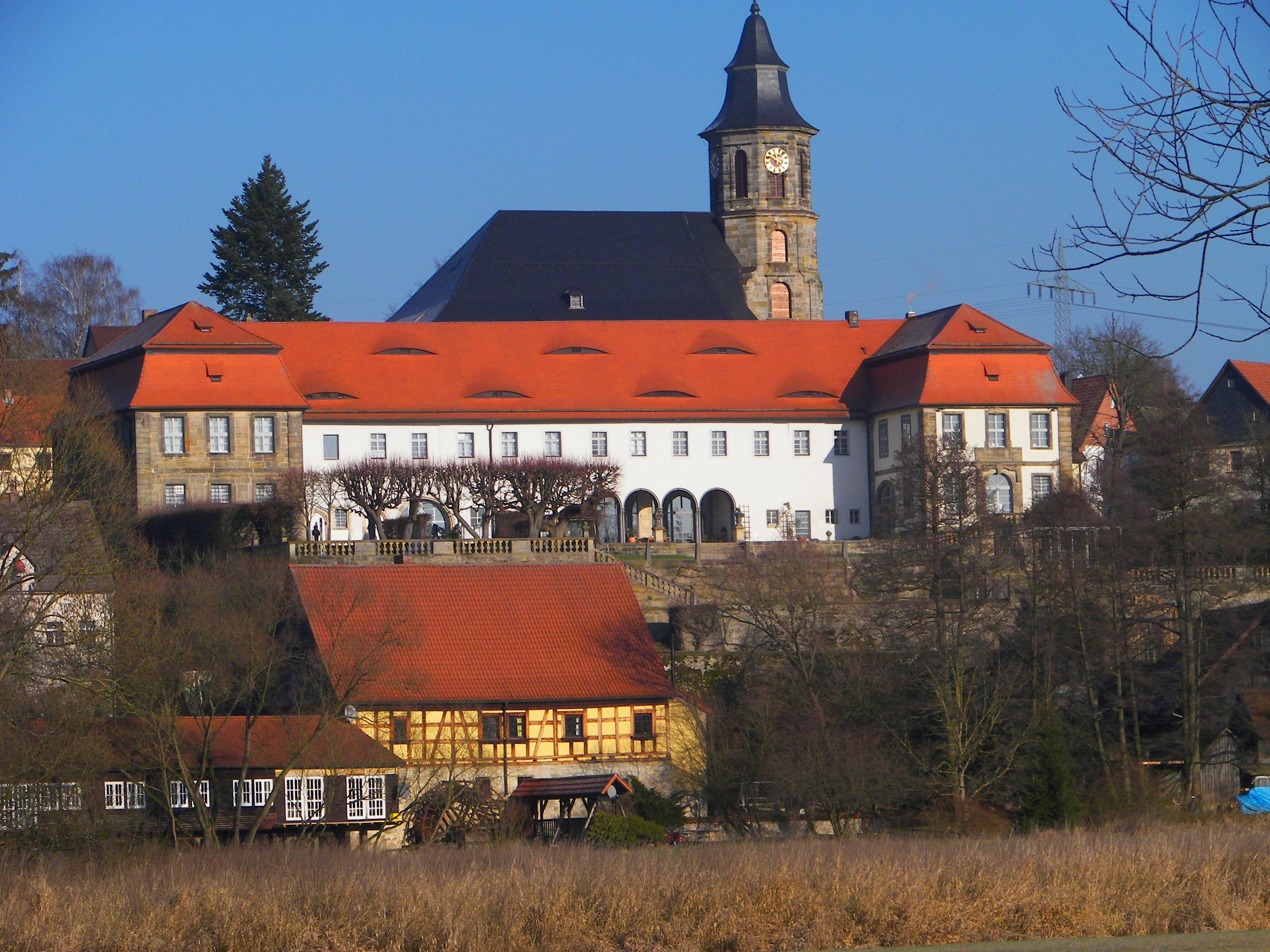 Neudrossenfels, Church, Castle and Mill